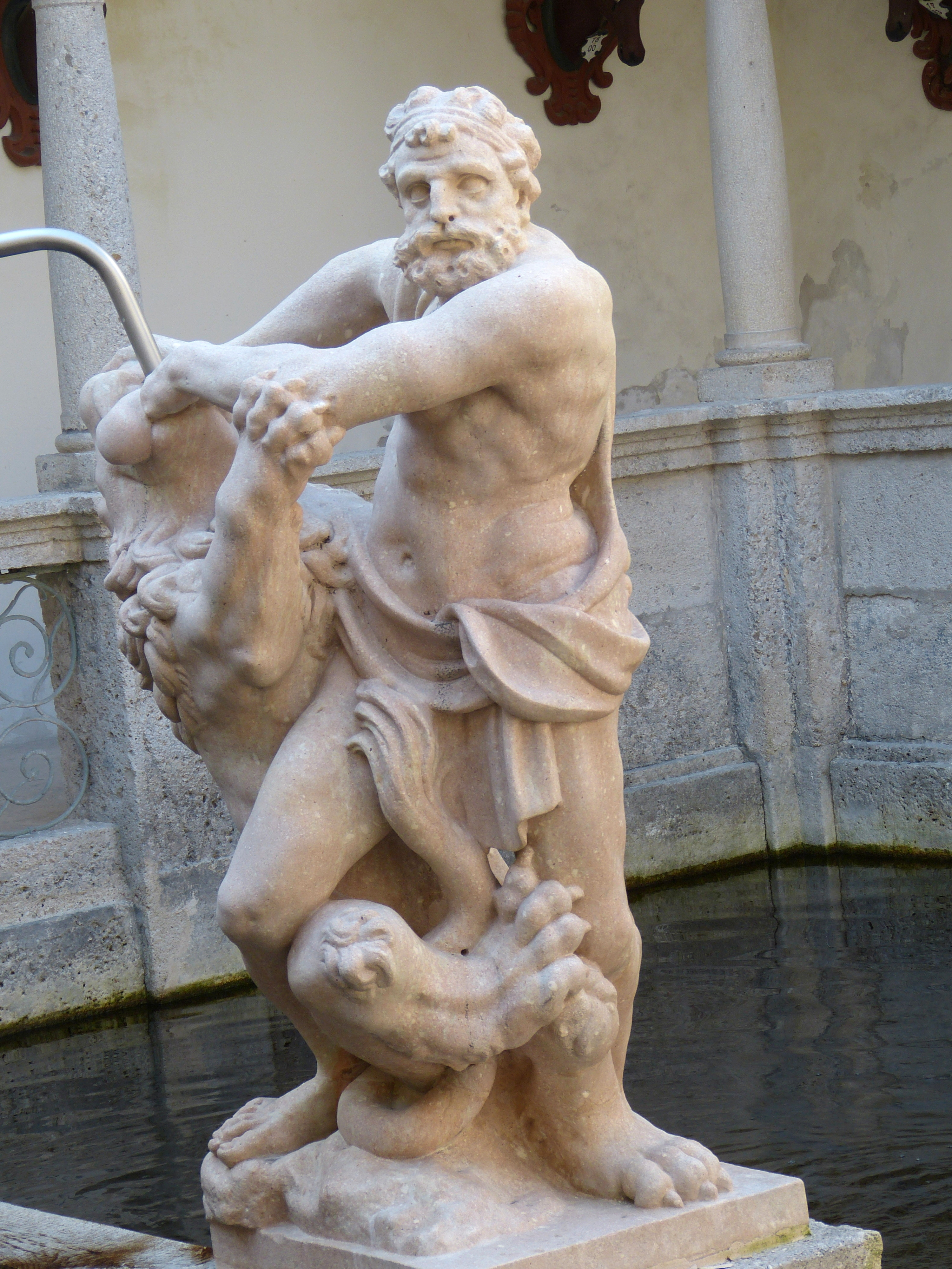 Kremsmünster abbey ( Upper Austria ). Baroque fish tanks ( 1691-1720 ) by Carlo Antonio Carlone and Jakob Prandtauer - Statue ( 1691 ) of Samson and the lion by Andreas Götzinger.